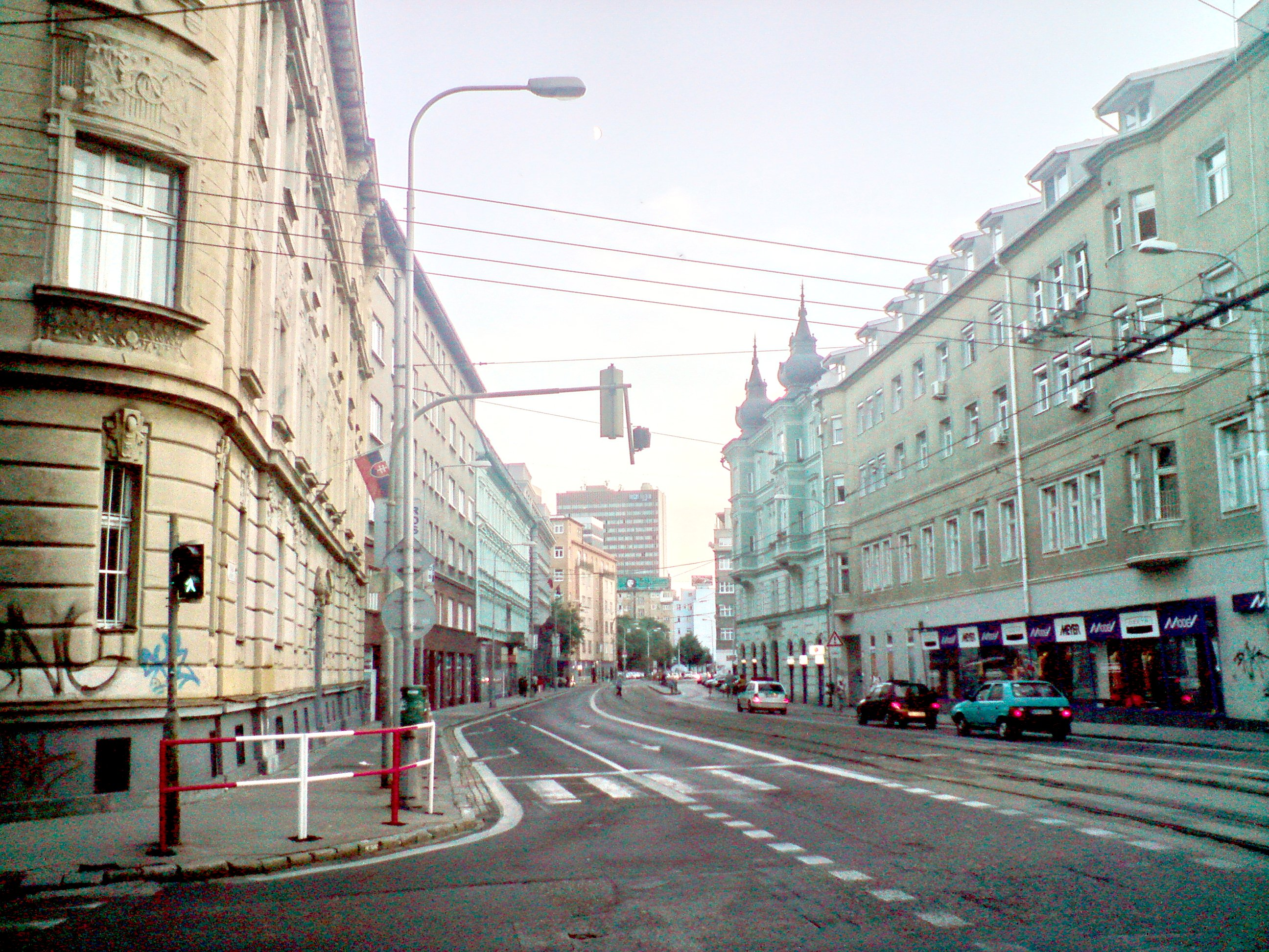 Špitálska street, Bratislava